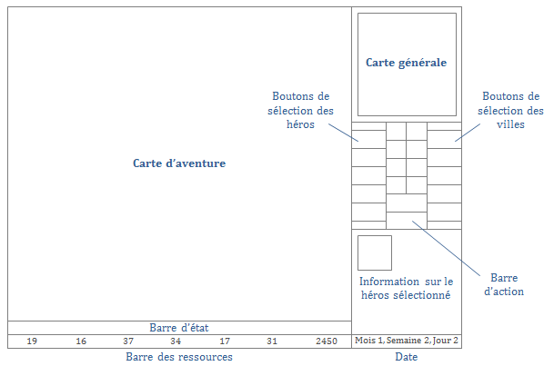 Diagram showing the functionalities of the interface of the adventure map in the video game Heroes of Might and Magic III (1999).